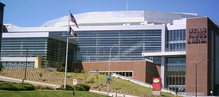 Wells Fargo Arena, part of the Iowa Events Center in Des Moines, Iowa. This was photographed on August 27, 2005, looking north along 2nd Avenue.